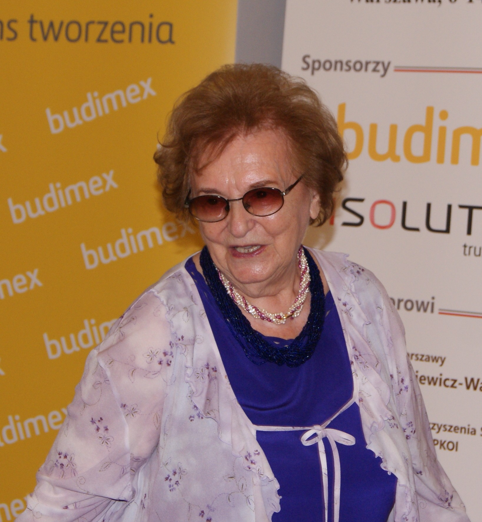 Mirosława Litmanowicz, Warszawa 2011